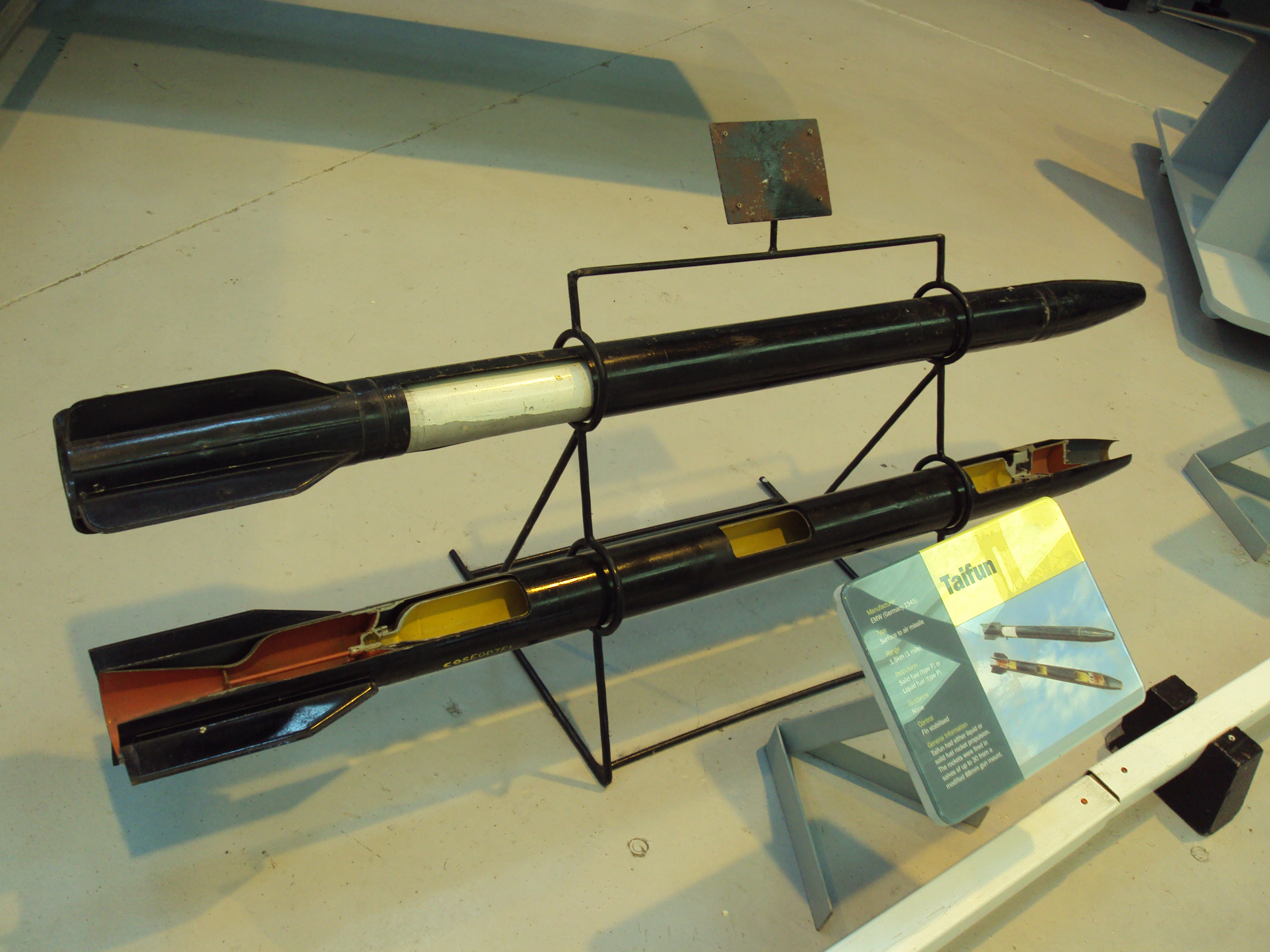 Taifun German surface-to-air missiles. Photo taken at the RAF Museum Cosford, Shropshire, England.